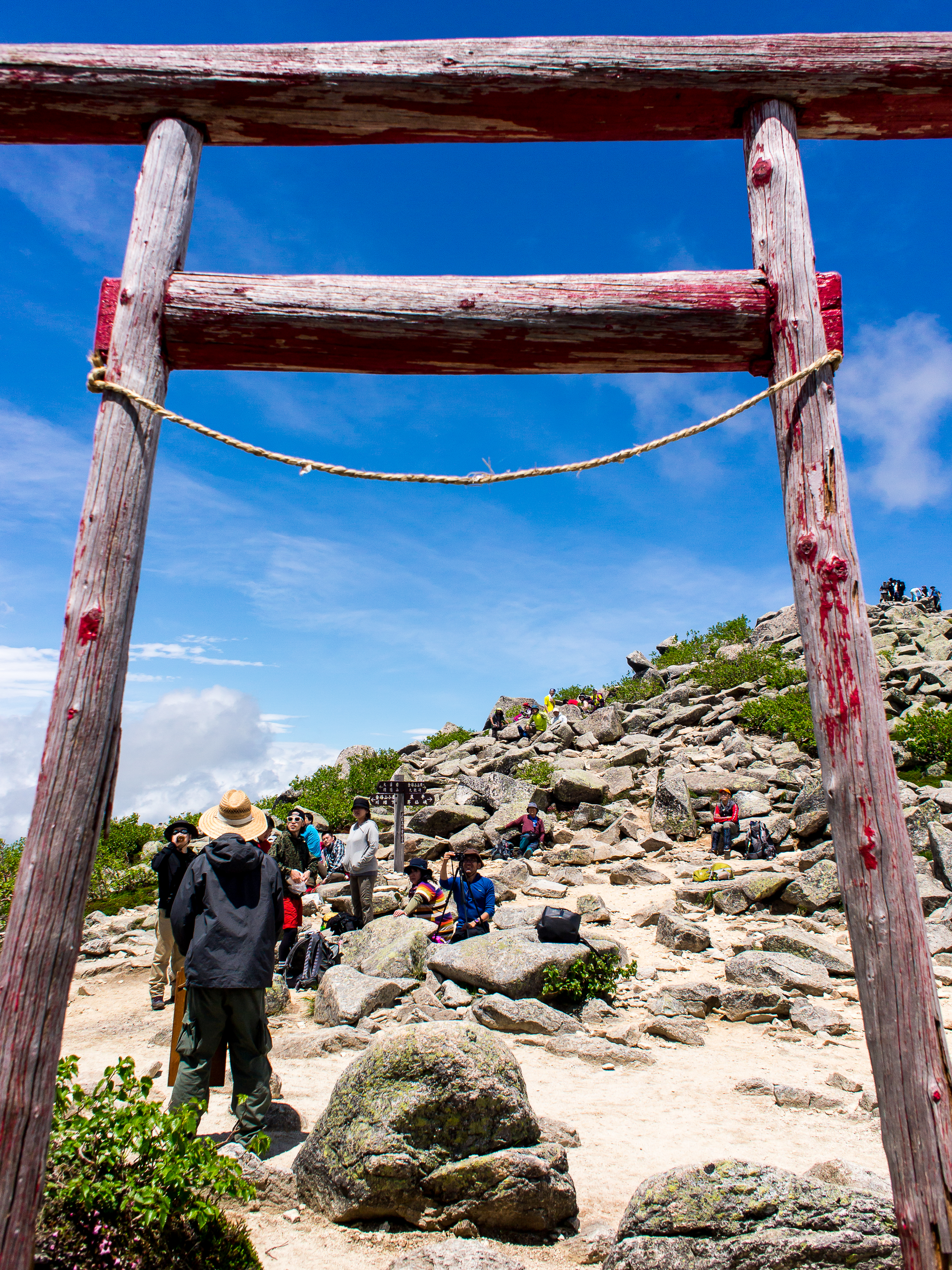 Description needed.